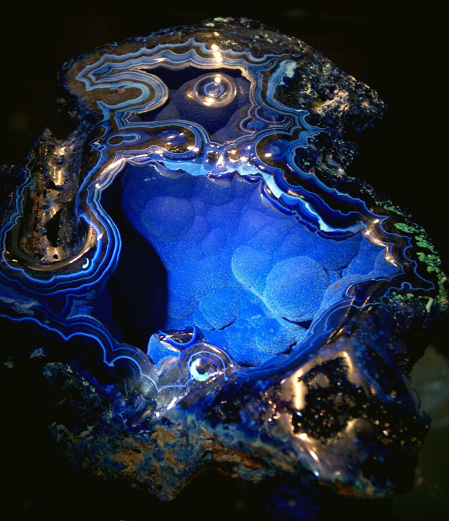 Azurite, Velvet Beauty. It was found in 1890 at Bisbee, Arizona, U.S.A. The chunk weighs about 3 pounds and is about 9" in diameter. For sale at the 2007 Tucson Gem & Mineral Show: asking price, US$25,000.